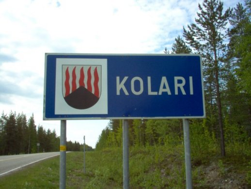 Municipal border sign of Kolari, Finland